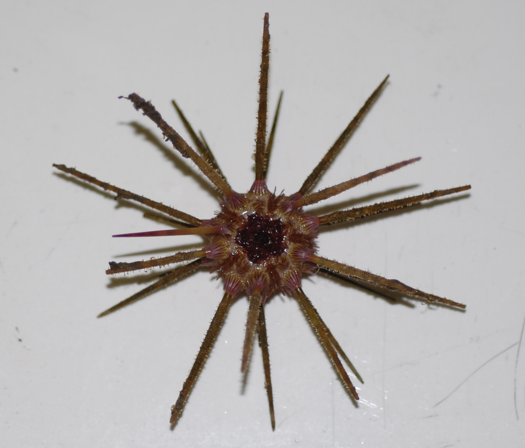 A species of pencil urchin ( Stylocidaris affinis ). Gulf of Mexico.